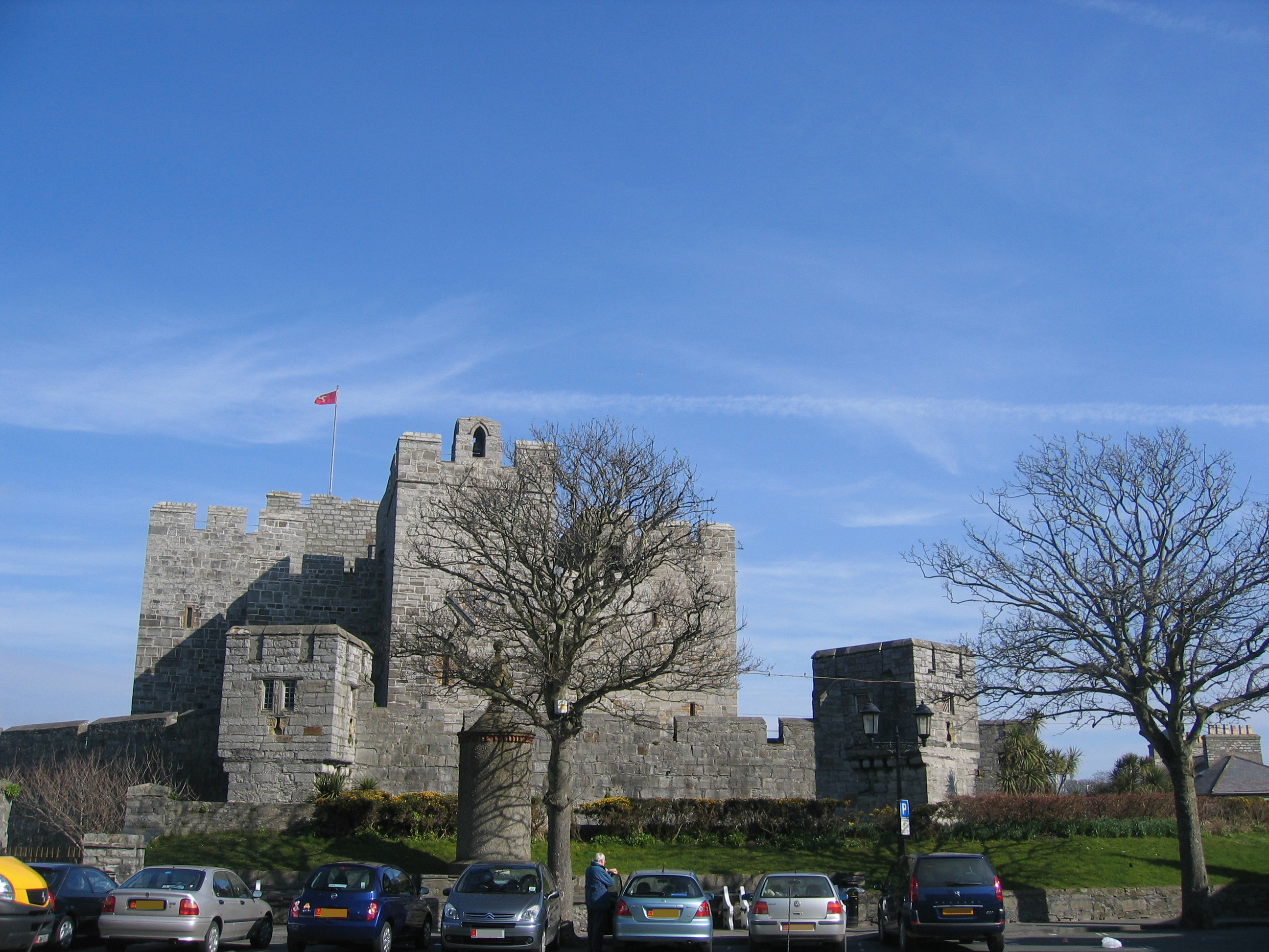 Castle Rushen in Castletown, Isle of Man, viewed from the town's market square on March 23. 2006, 12.56 p.m. Manxruler 15:07, 10 September 2006 (UTC)